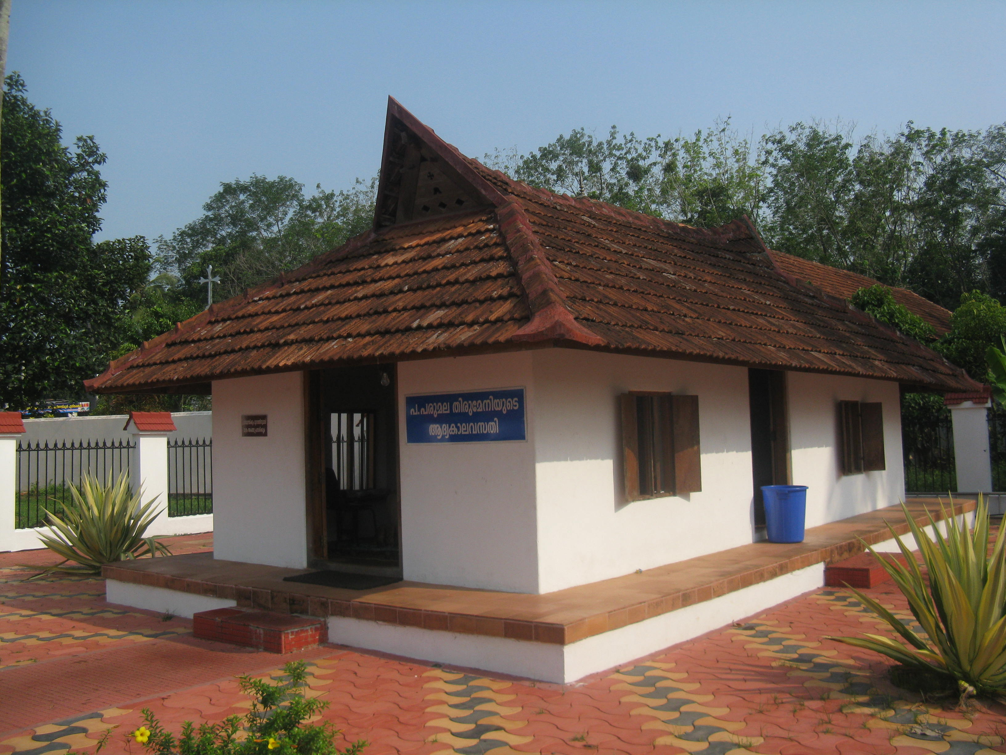 The small building where St.Gregorios lived at Parumala